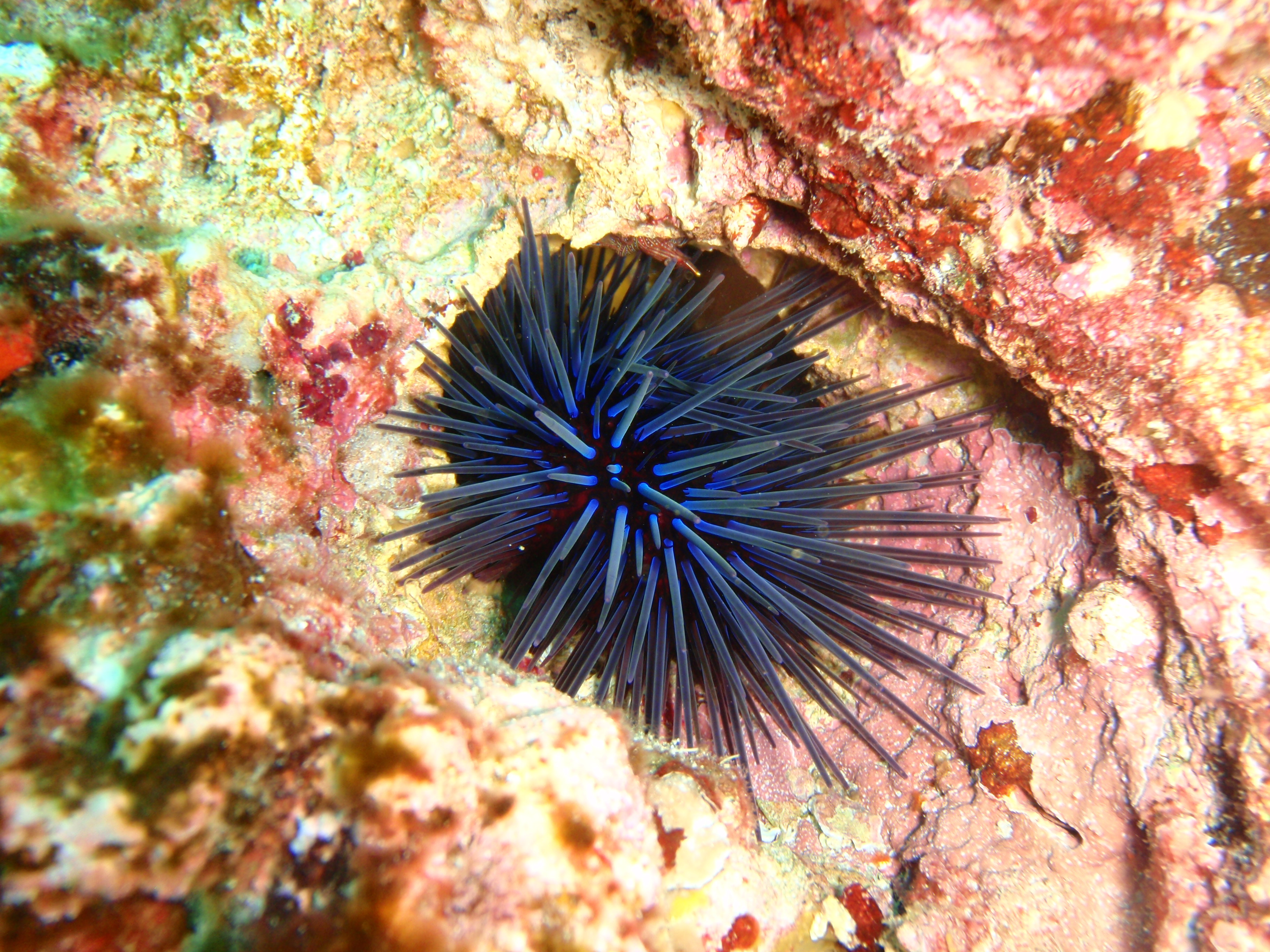 Sea urchin at Rottnest Island, Western Australia